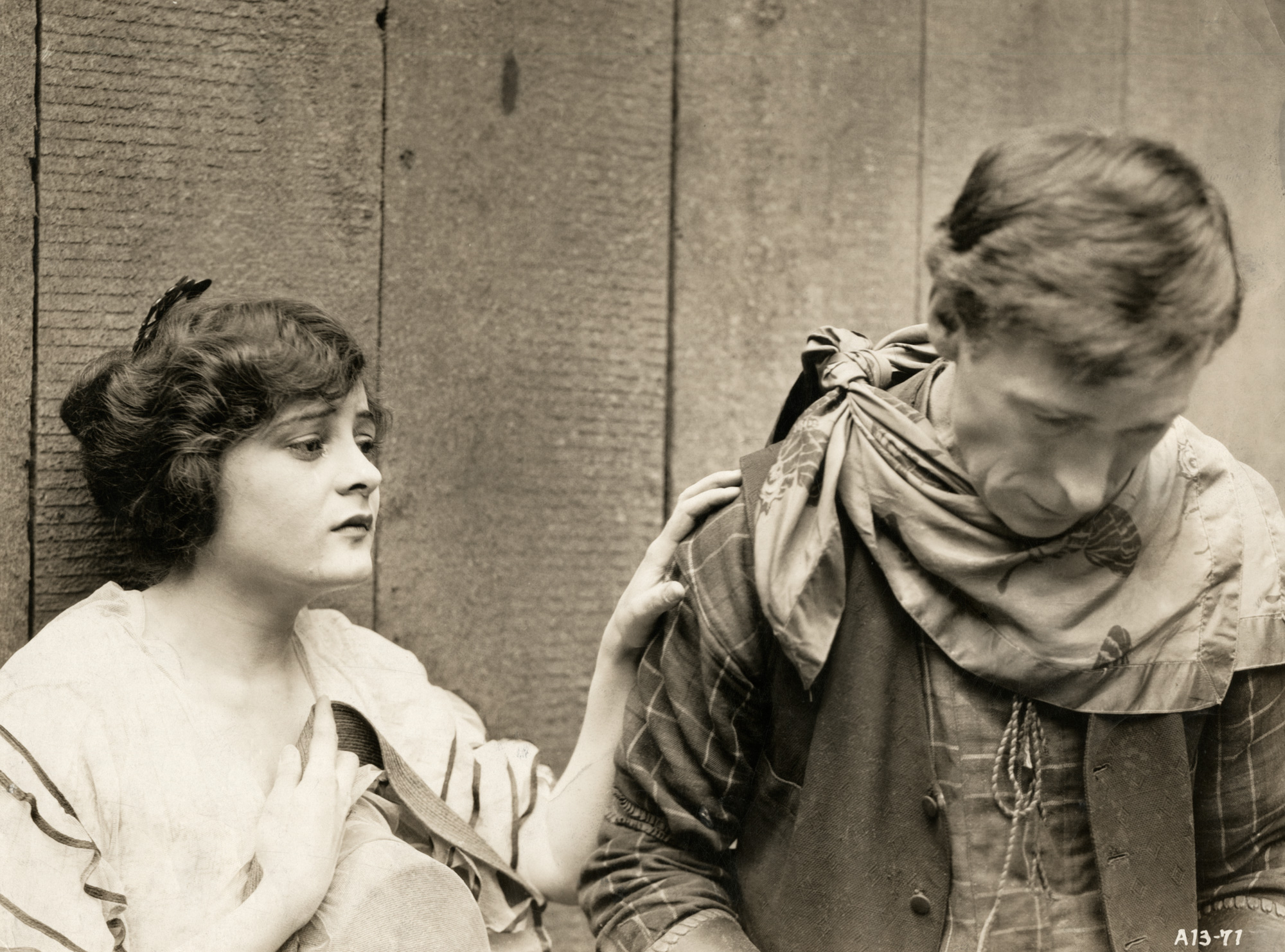 The Narrow Trail is a 1917 American silent western film directed by Lambert Hillyer and William S. Hart and written by William S. Hart and Harvey F. Thew. This is a scene from the film.